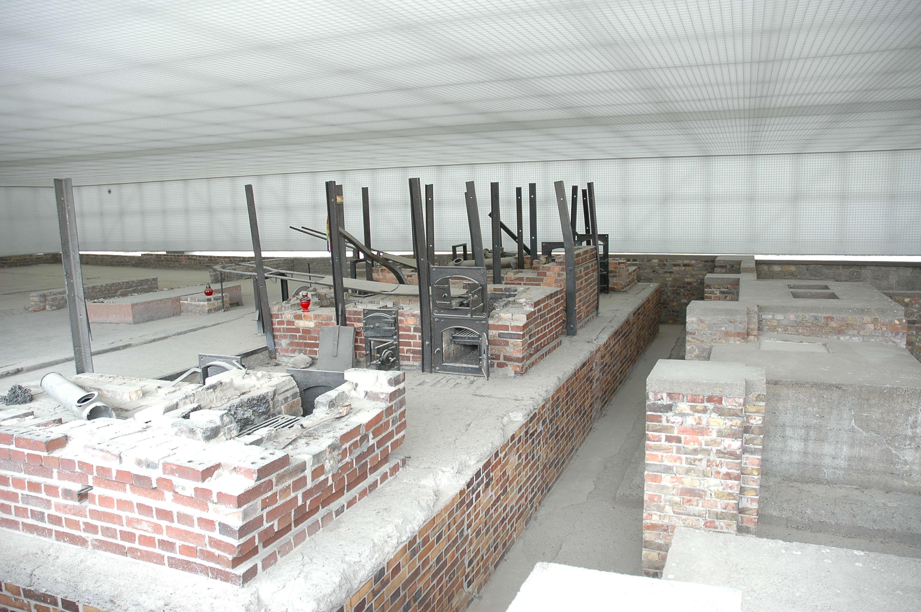 Rest of the creation ovens in Sachsenhausen concentration camp